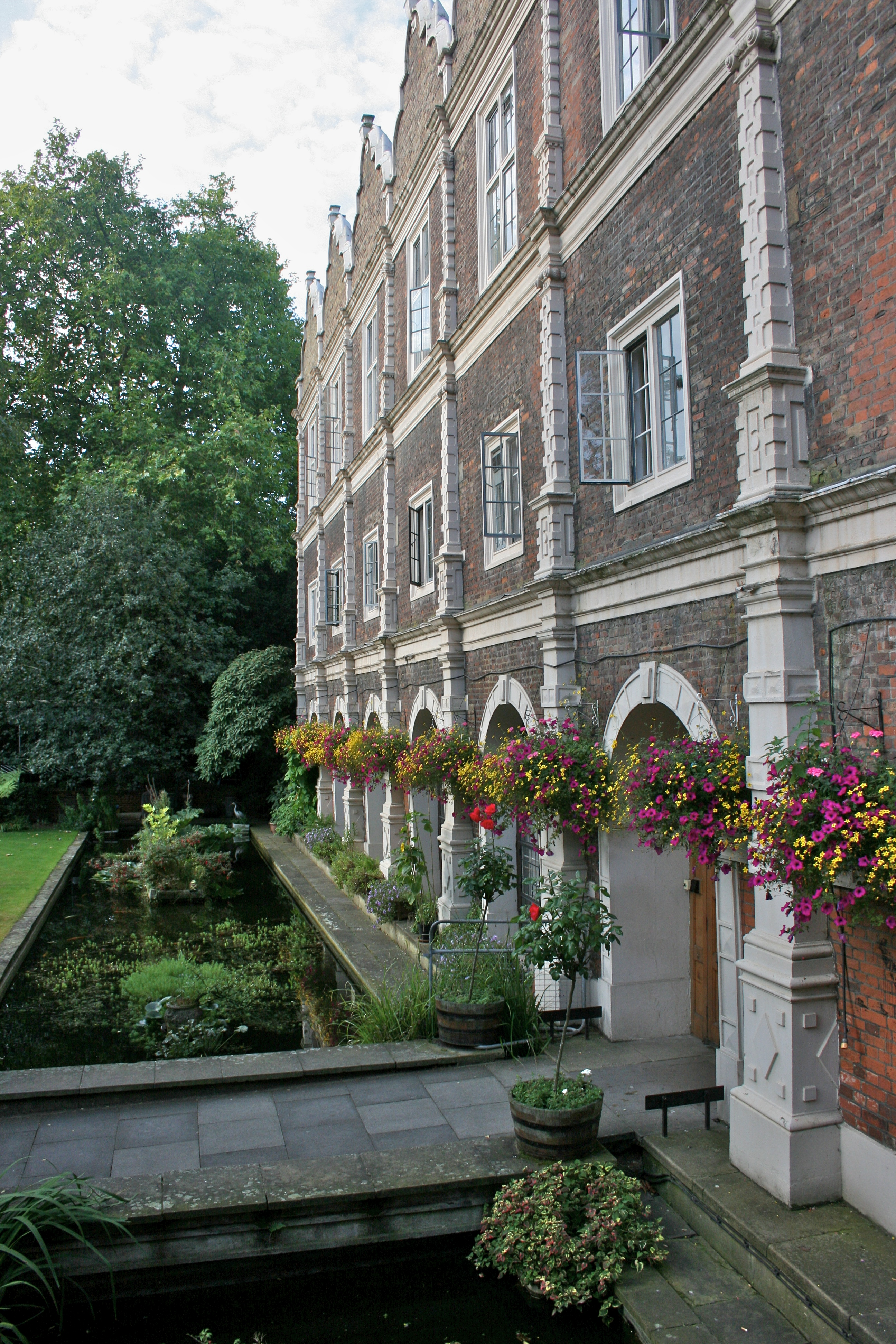 Part of the YHA hostel based in the remains of Holland House, London.